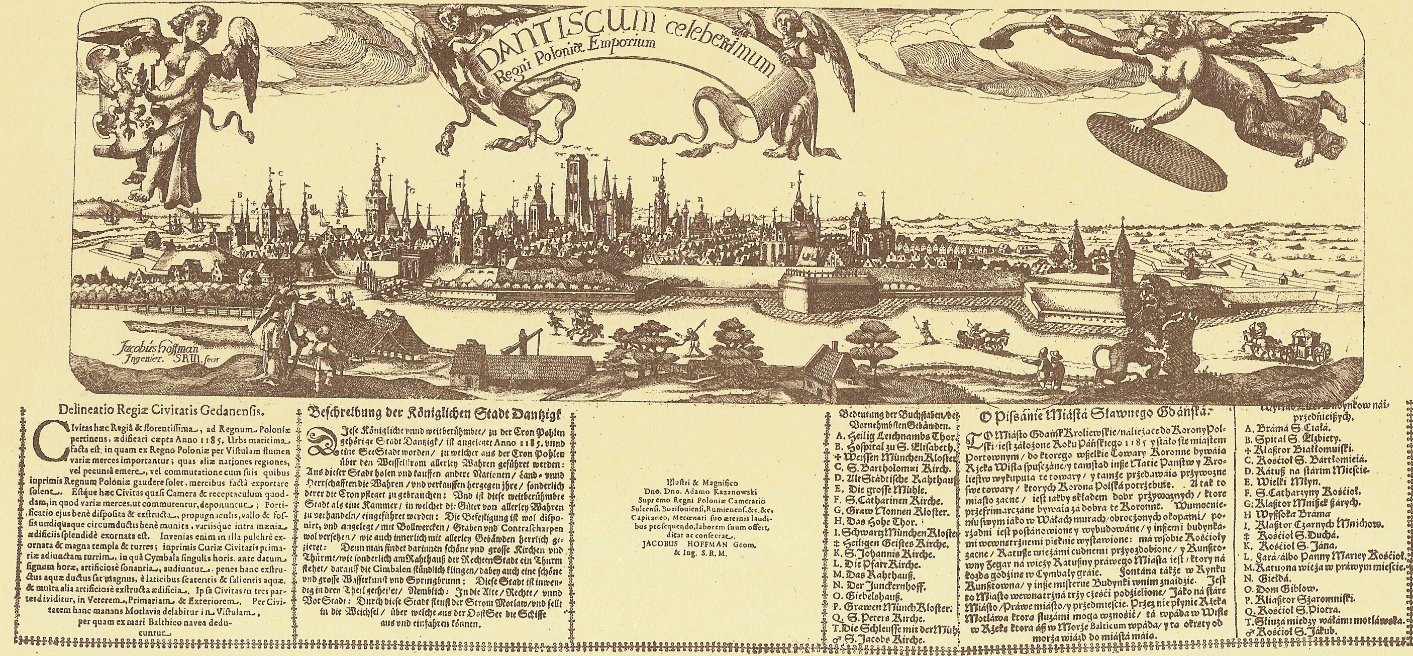 Gdańsk "Dantiscum Regni Poloniae Emporium".